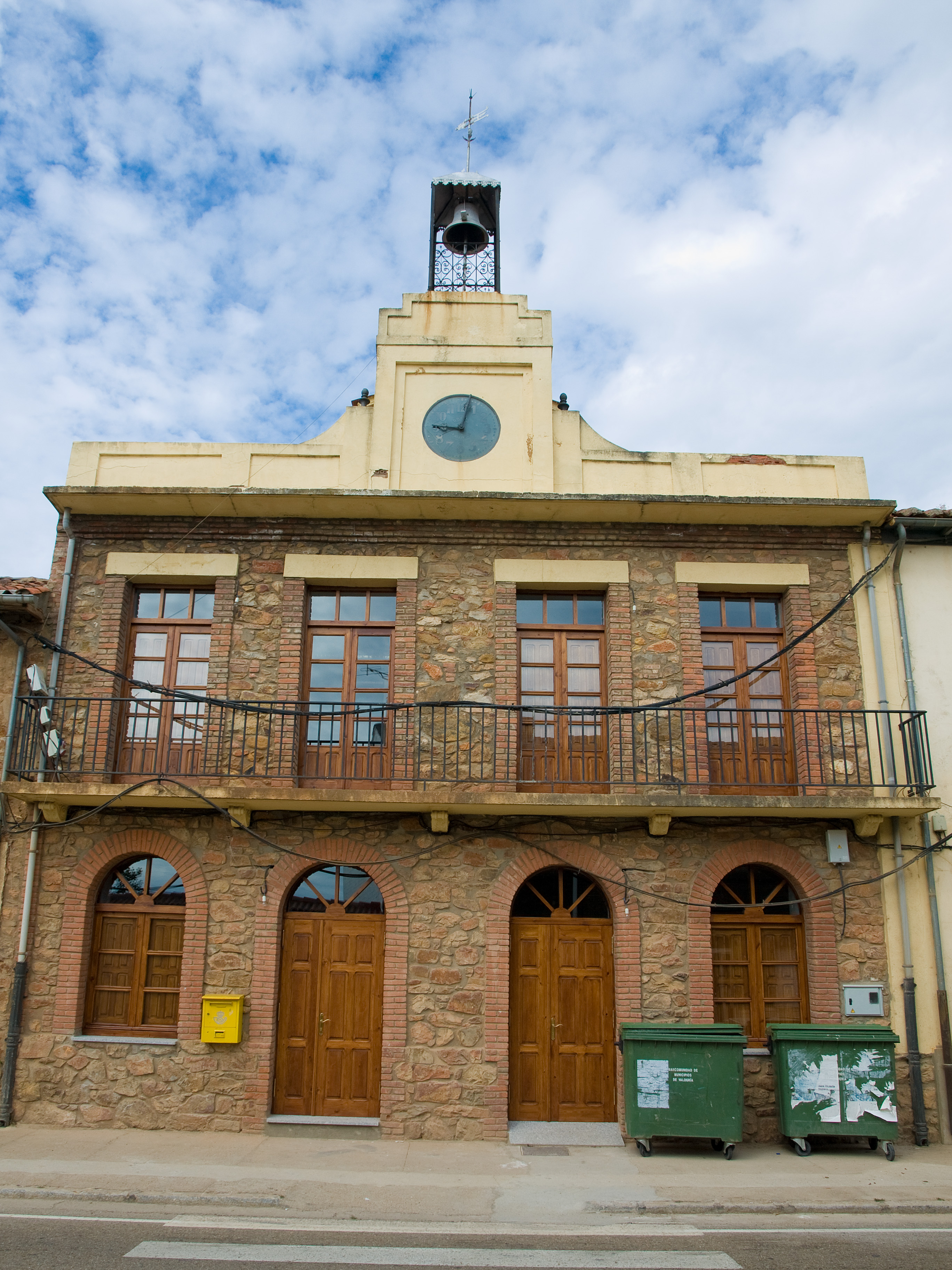 The ancient City Hall in the spanish town of Castrocontrigo, province of León